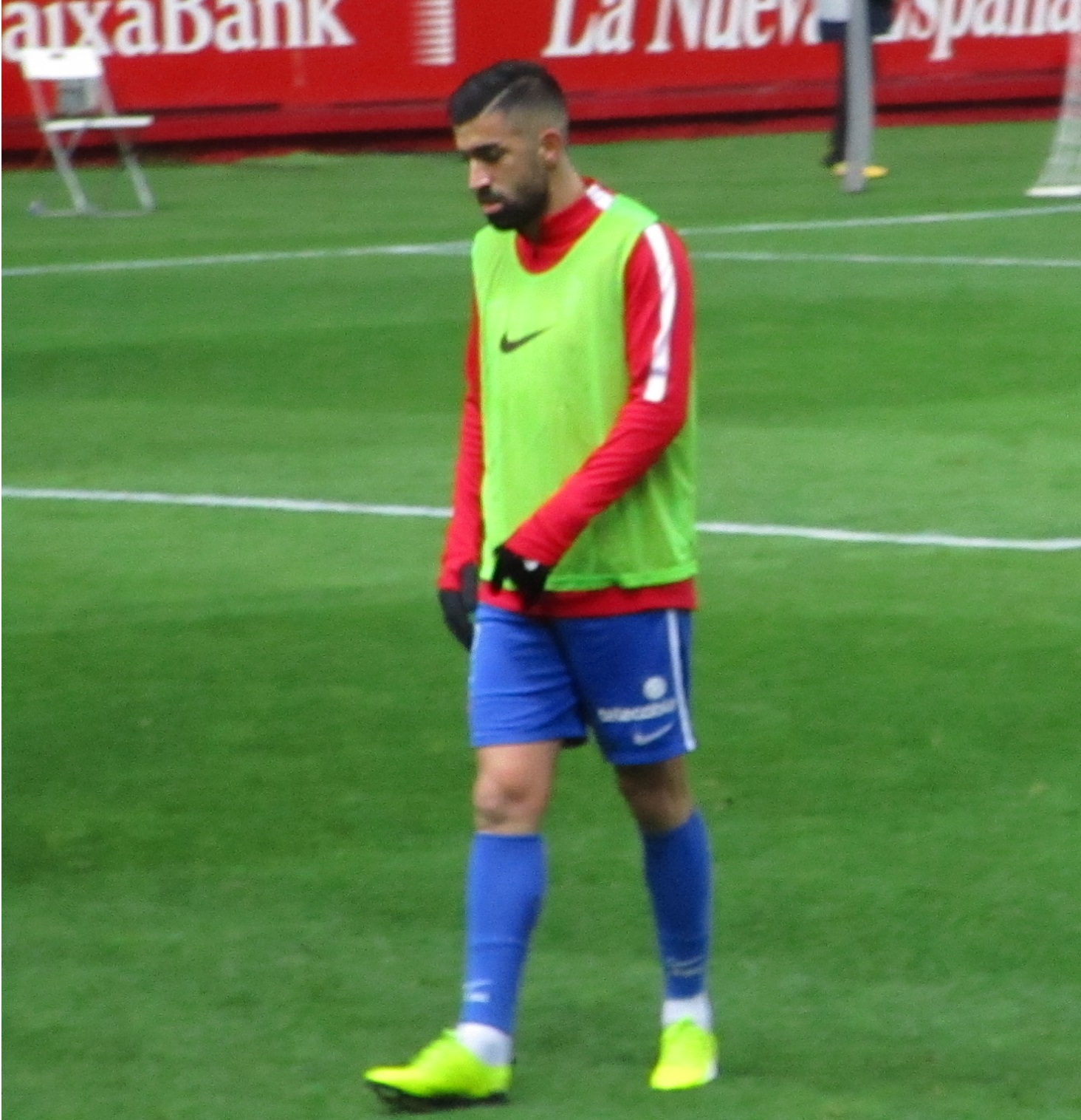 Michael Santos, Uruguayan footballer for Sporting Gijón